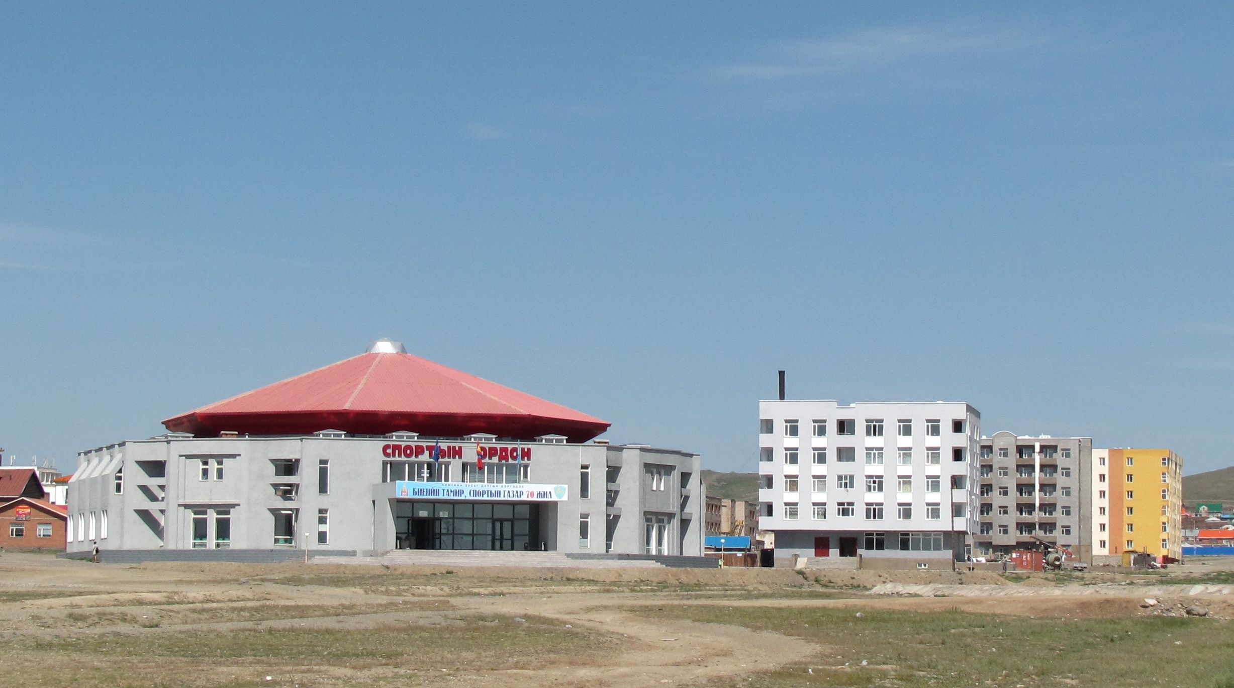 Sport Palace, Arvaikheer, Mongolia.